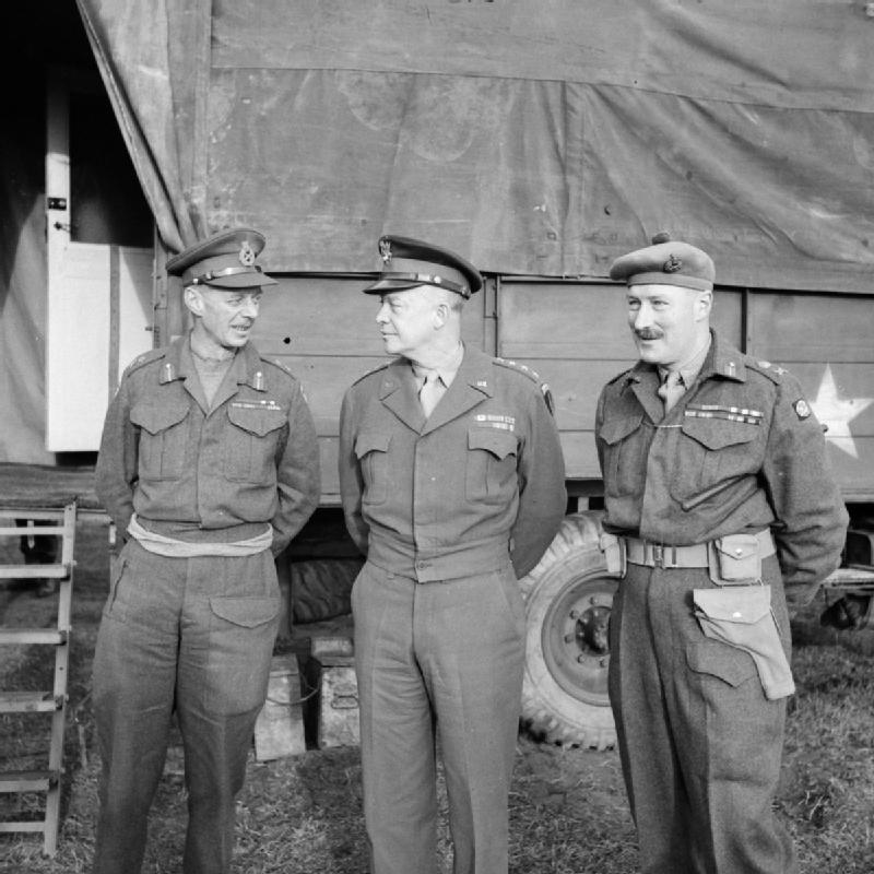 The British Army in North-west Europe 1944-45 General Eisenhower, Supreme Commander Allied Forces (centre), with Lt Gen Dempsey (C-in-C British 2nd Army) and Lt General Ritchie (12 Corps Commander) at 12 Corps HQ, November 1944.